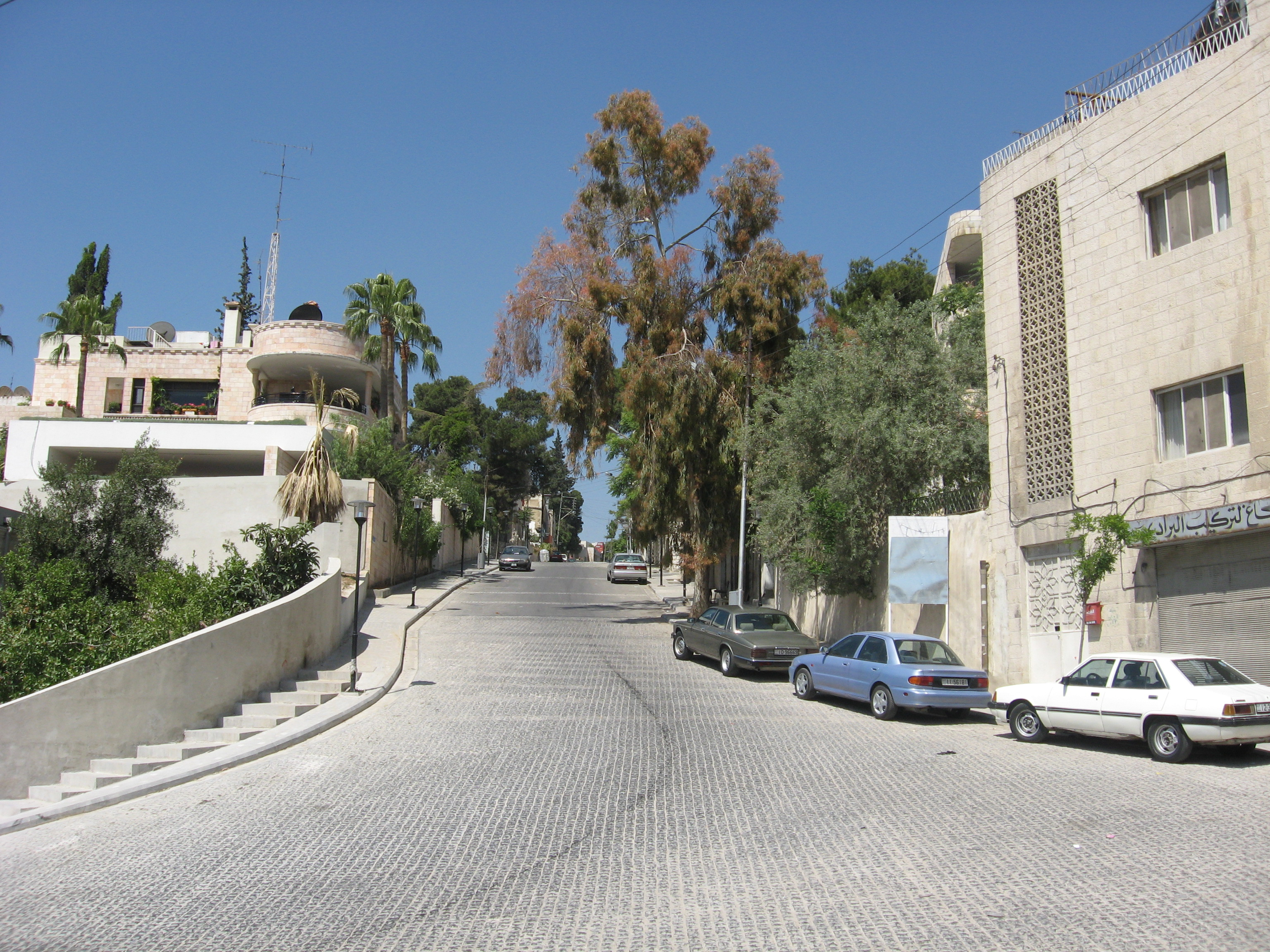 Rainbow Street, Amman, in May 2008.